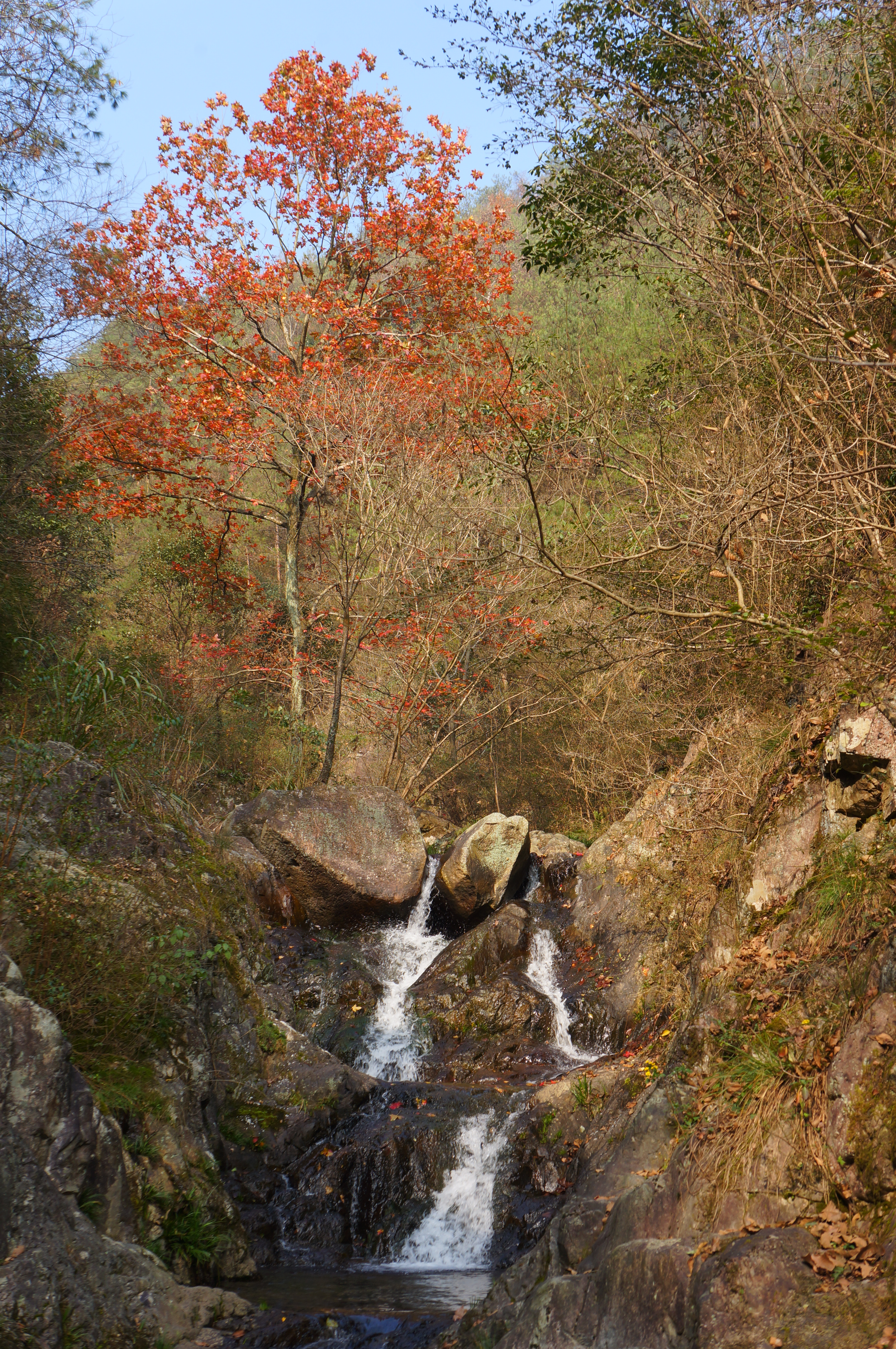 201612 Stream and Waterfall alongside Jinlan Ancient Trail